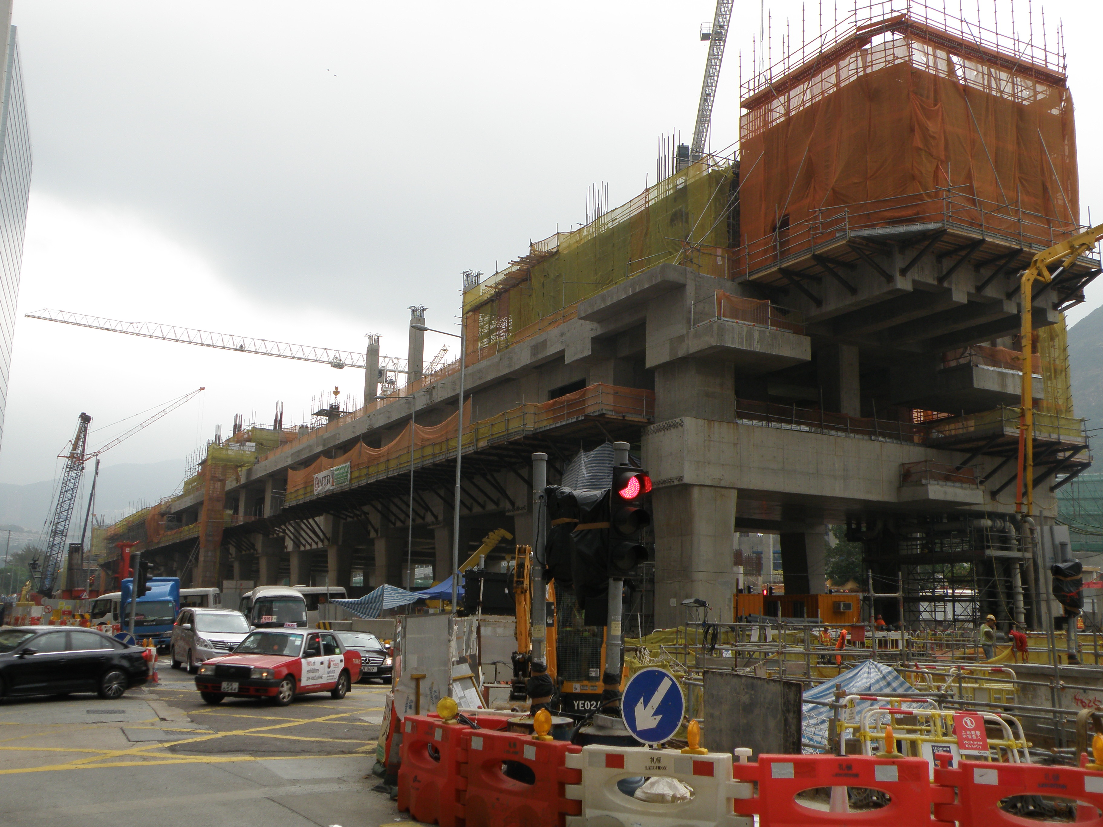 Wong Chuk Hang Station under construction